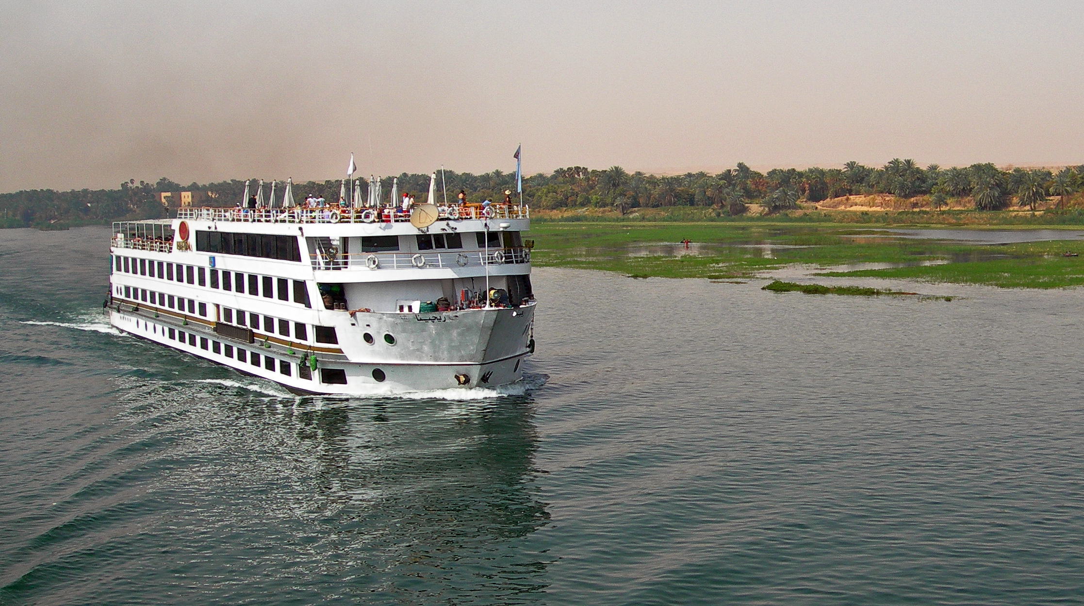 Ship on the Nile. Egypt